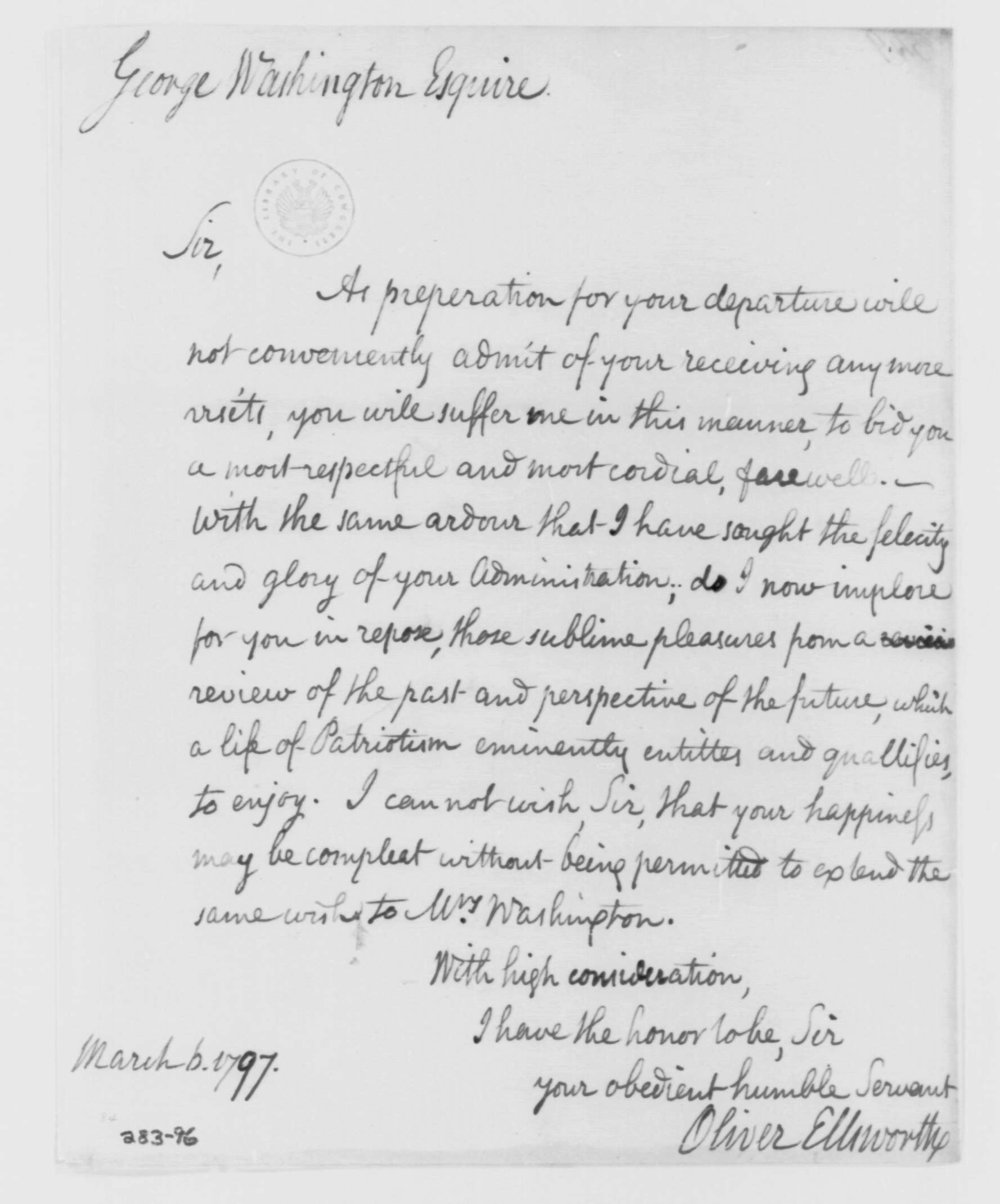 Letter from Oliver Ellsworth to George Washington in which Ellsworth wishes Washington "a most respectful and most cordial farewell" as Washington departs the presidency. George Washington Papers, Series 4, General Correspondence, The Library of Congress, Washington, D.C.